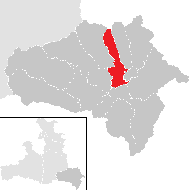 District Tamsweg